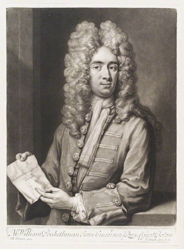 Portrait of William Pinkethman (c.1660–1725), English comic actor.